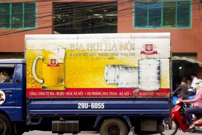 A truck is shipping bia hơi kegs